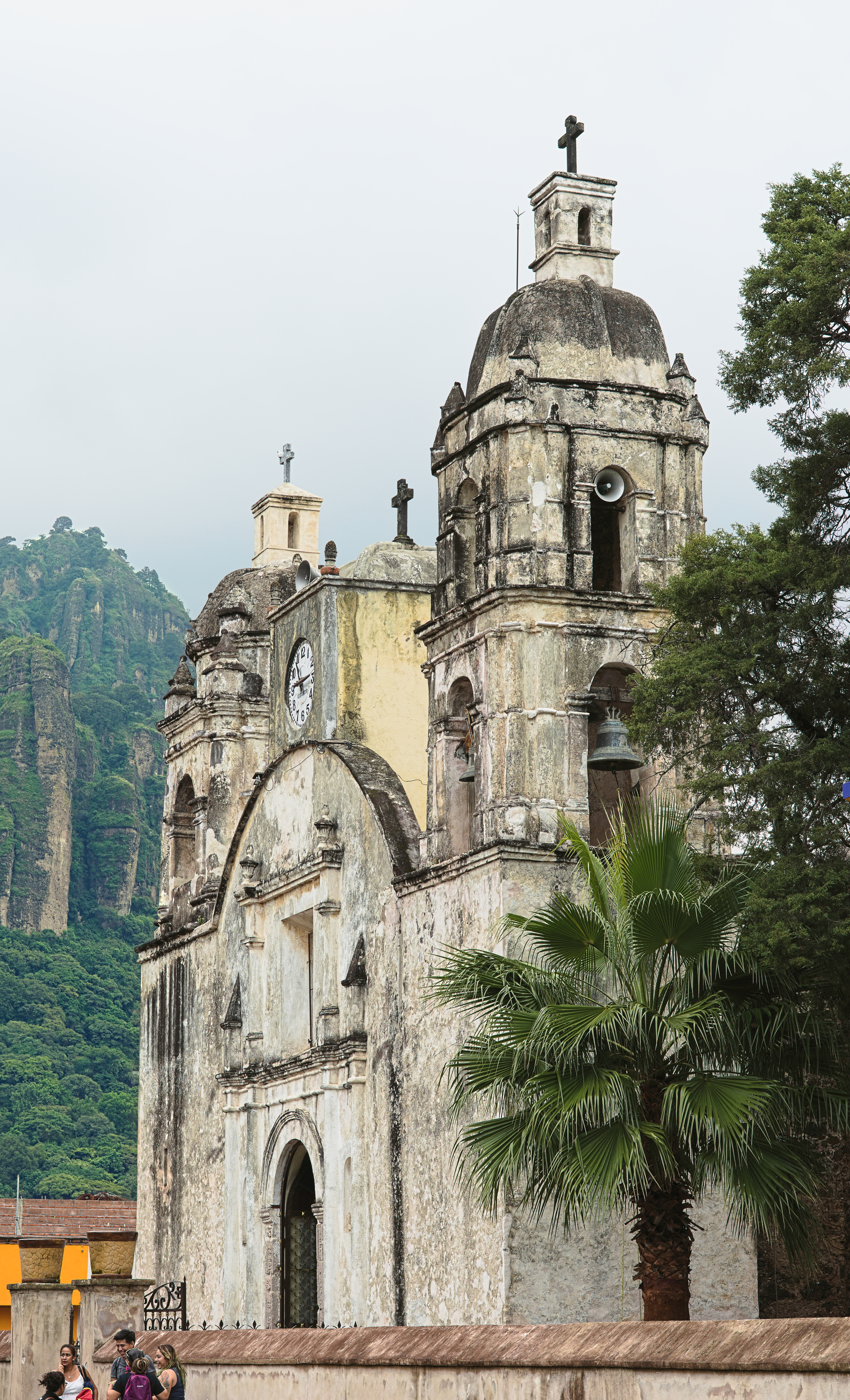 Facade of temple The Holy Trinity in Tepoztlan, Morelos